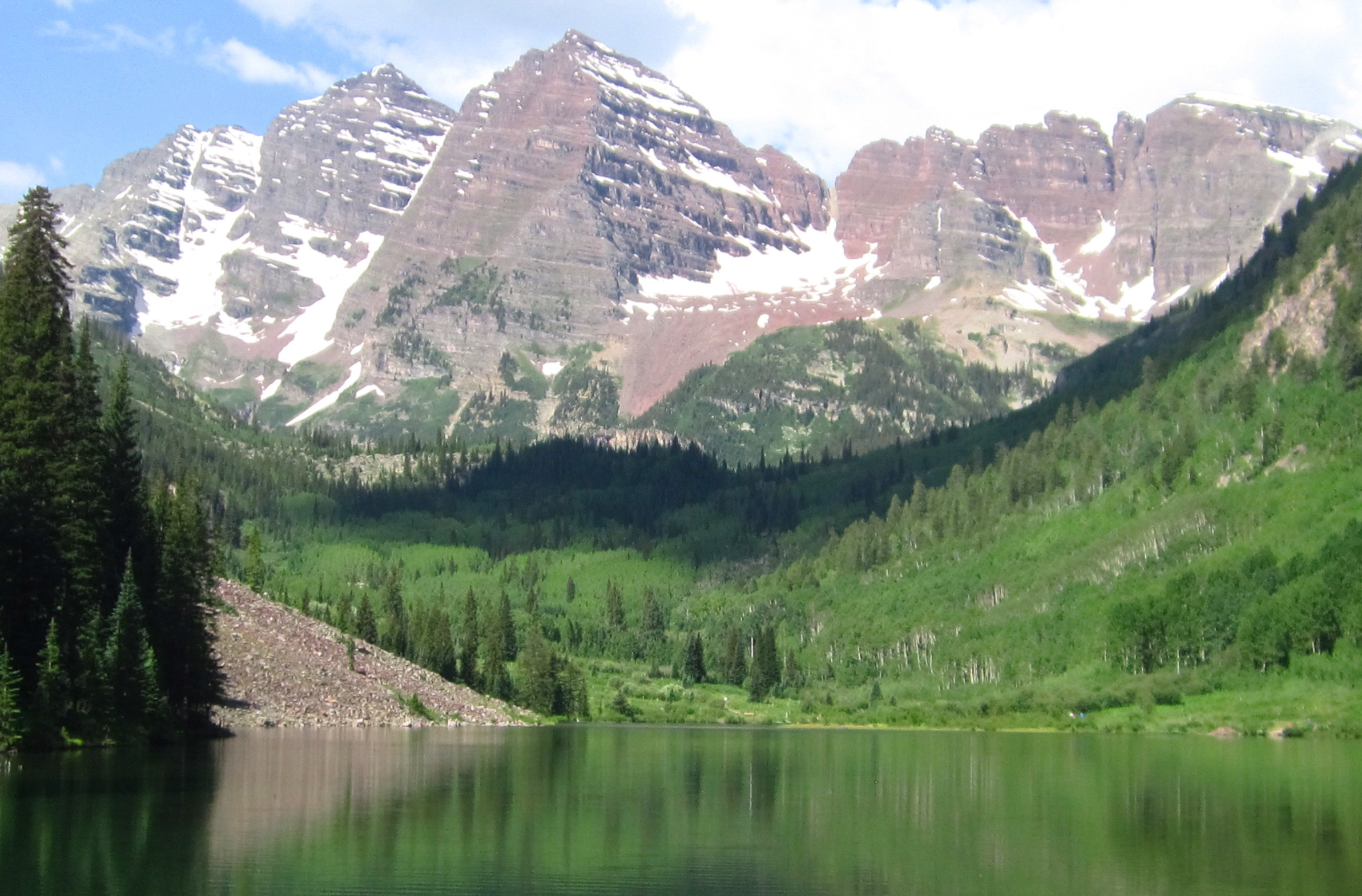 Elk Mountains CO